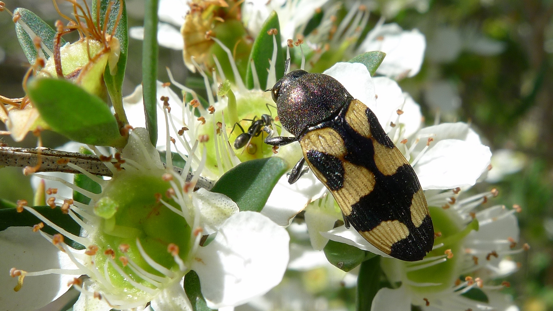 Jewel Beetle, Castiarina inconspicua, on Leptospermum polygalifolium. Royal National Park, NSW Australia, November 2013. Thanks to Allen Sundholm for the ID.